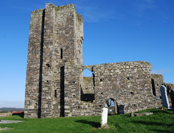 Douglas P.Bermingham Summary Douglas P.Bermingham